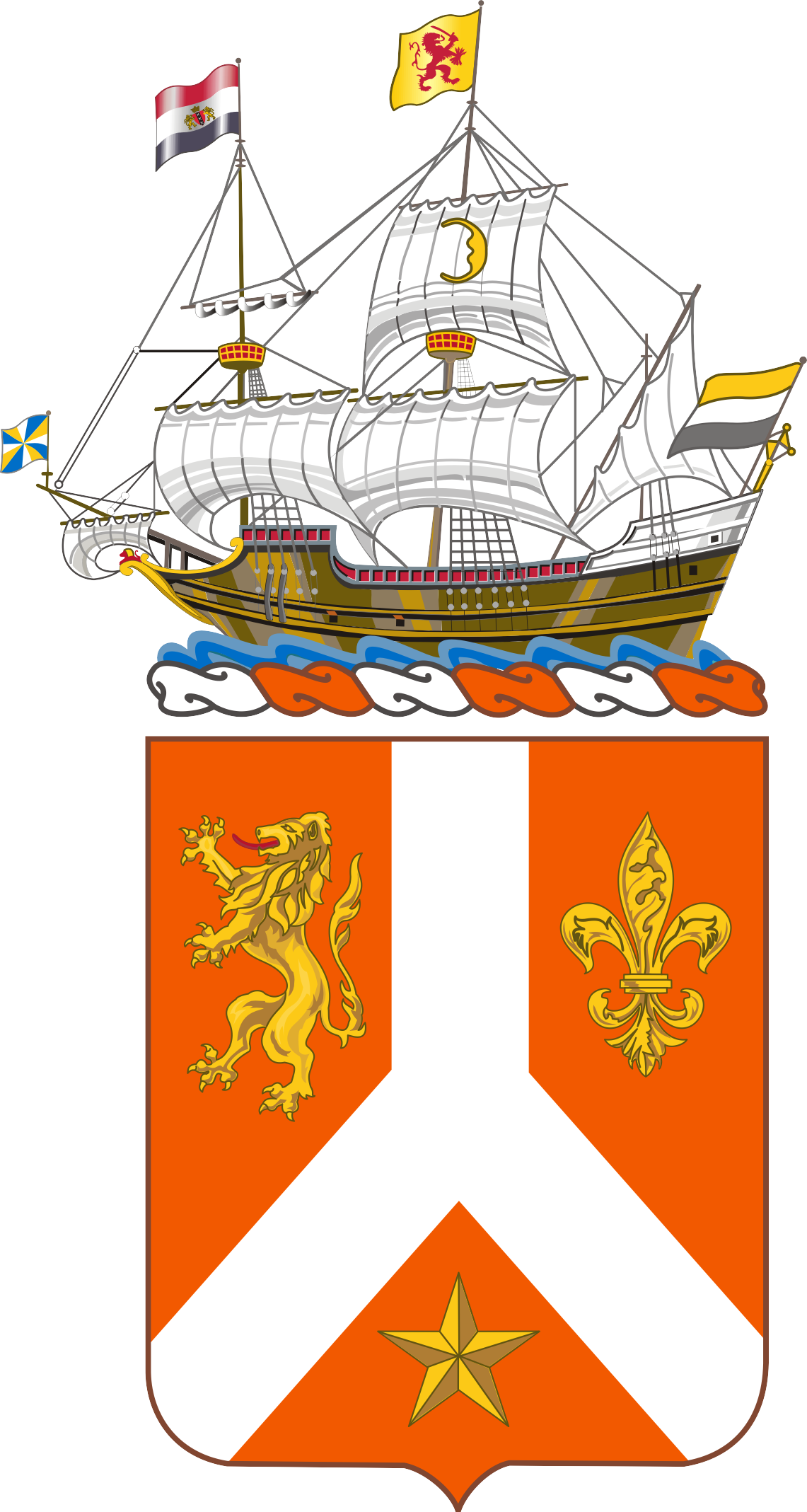 101st Signal Battalion Coat Of Arms